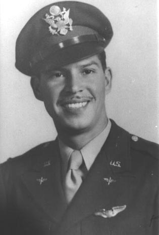 Image of Perdomo found at